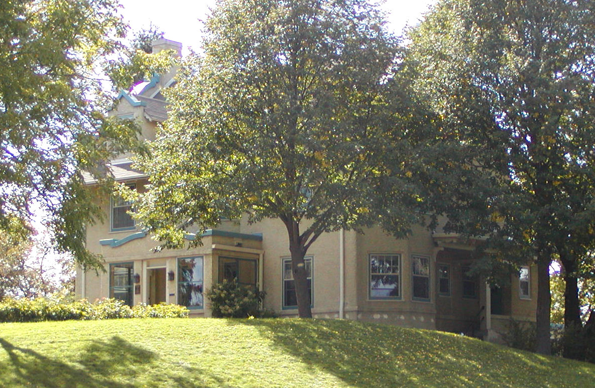 Taken by me in September, 2006